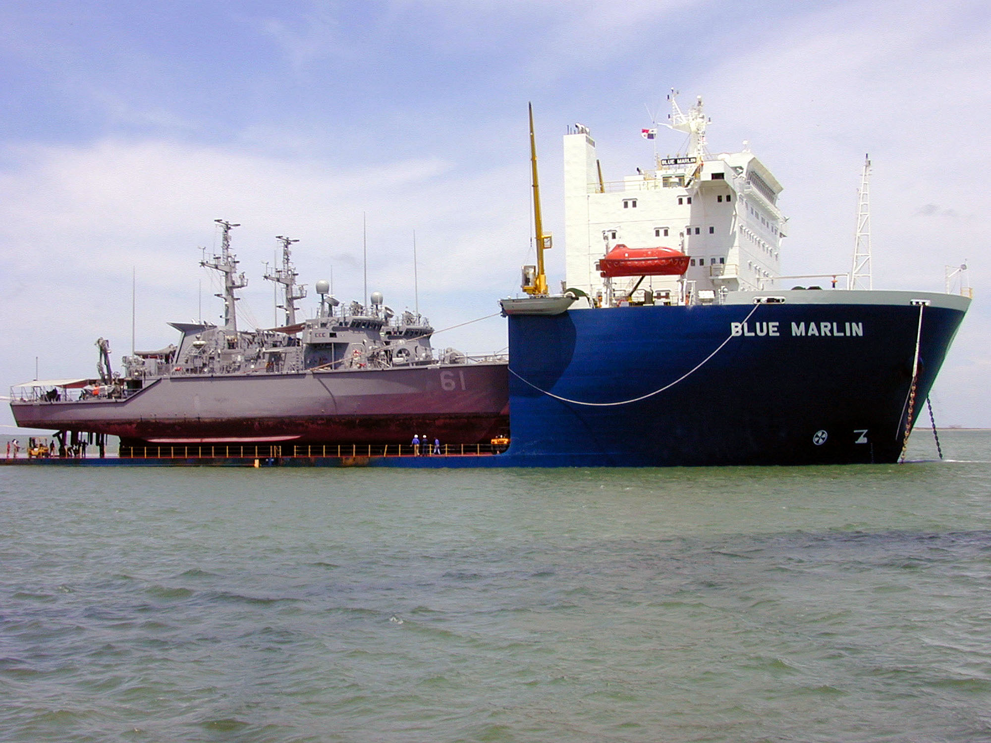 The coastal mine-hunters USS Cardinal (MHC-60) and USS Raven (MHC-61) sit on the deck of the commercial motor vessel MV Blue Marlin after de-ballasting operations, which lifted the mine-hunters onto the MV Blue Marlin’s deck for transport. Location: Ingleside, Texas, USA. Information about Blue Marlin may be found at IMO 9186338. A ship can change her name and flag state through time, but the IMO number remains the same through the hull's entire lifetime. Therefore, it's useful to identify a ship through her IMO number.